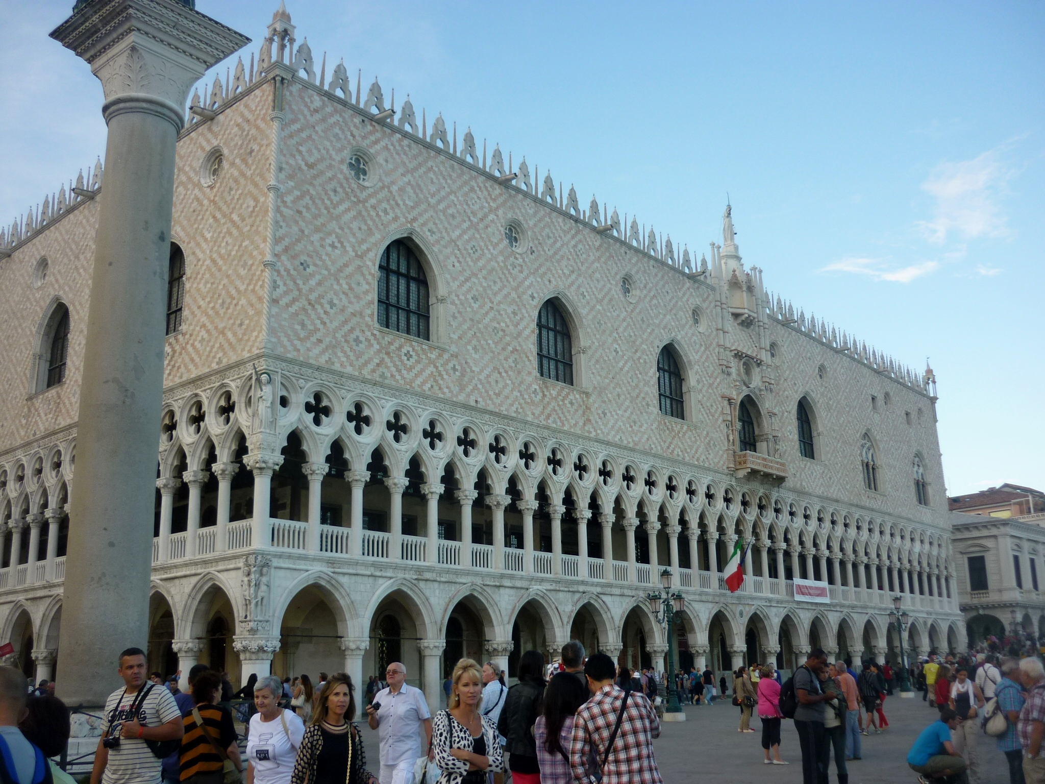 Doge's Palace in Venice